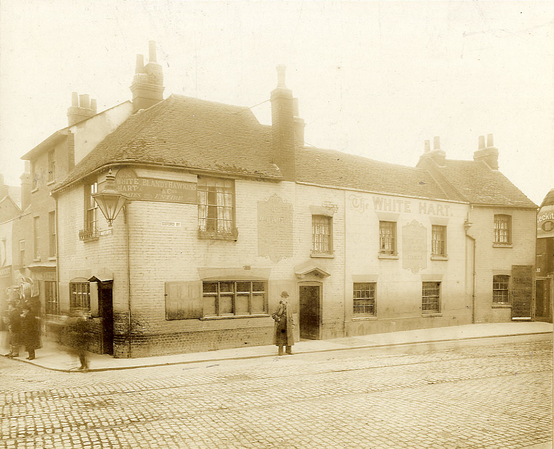 The White Hart Hotel, No. 1 Oxford Road, Reading, at the corner of St. Mary's Butts. The sign advertises the ales of Blandy, Hawkins and Company, and the landlord's name, Alfred Coates. A gentleman in a hat and a top-coat with a velvet collar stands outside. To the left, part of the shop of Samuel Allwood, furniture dealer, at No. 4 St. Mary's Butts can be seen, and the shops of Frederick Gomm, basket maker, and Anne Baxter, fruiterer. 1900-1909: photograph by Walton Adams. Other prints at #1325246 and #1325247.